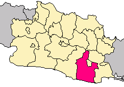 Location of Tasikmalaya county, West Java province, Indonesia